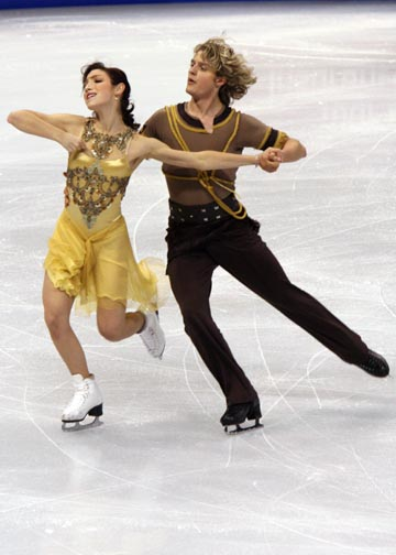 Meryl Davis & Charlie White during their free dance at the 2008 Skate Canada International. They won this competition.